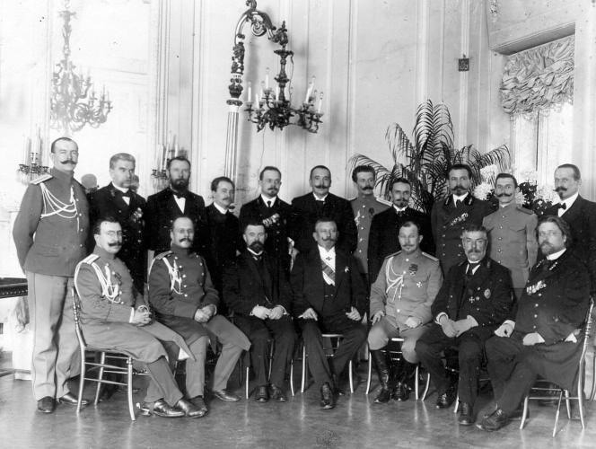 St. Petersburg Okhrana (tsarist secret police) group photo. The head of the Okhrana, Alexander Vasilyevich Gerasimov (sitting, in the middle), with department heads and investigators.